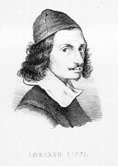 Portrait of Lorenzo Lippi (1606-1665), Italian painter; engraving.